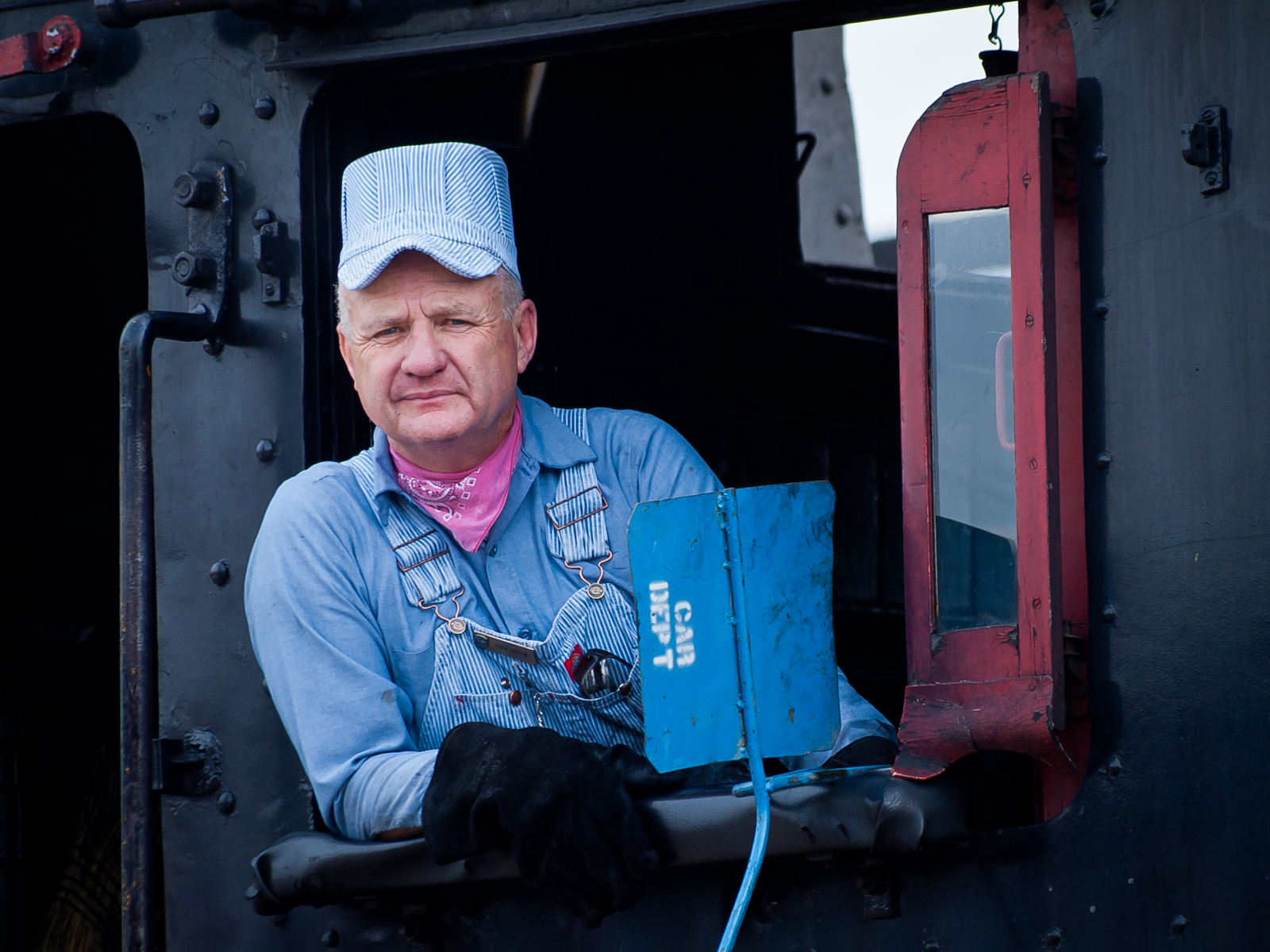 Dick Roden, chief engineer at Steamtown, in the cab of steam locomotive CN3254.Photo taken with an Olympus E-5 in Steamtown National Historic Site, PA, USA.Cropping and post-processing performed with Adobe Lightroom.